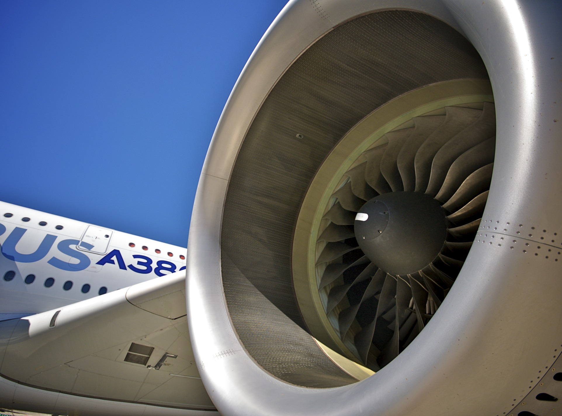 Airbus A380 - MSN 004 - F-WWDD Registration: F-WWDD Serial number: 4 Test registration: F-WWDD Engines: 4 x GP7270 Location Ezeiza Min. Pistarini Airport - Argentina.